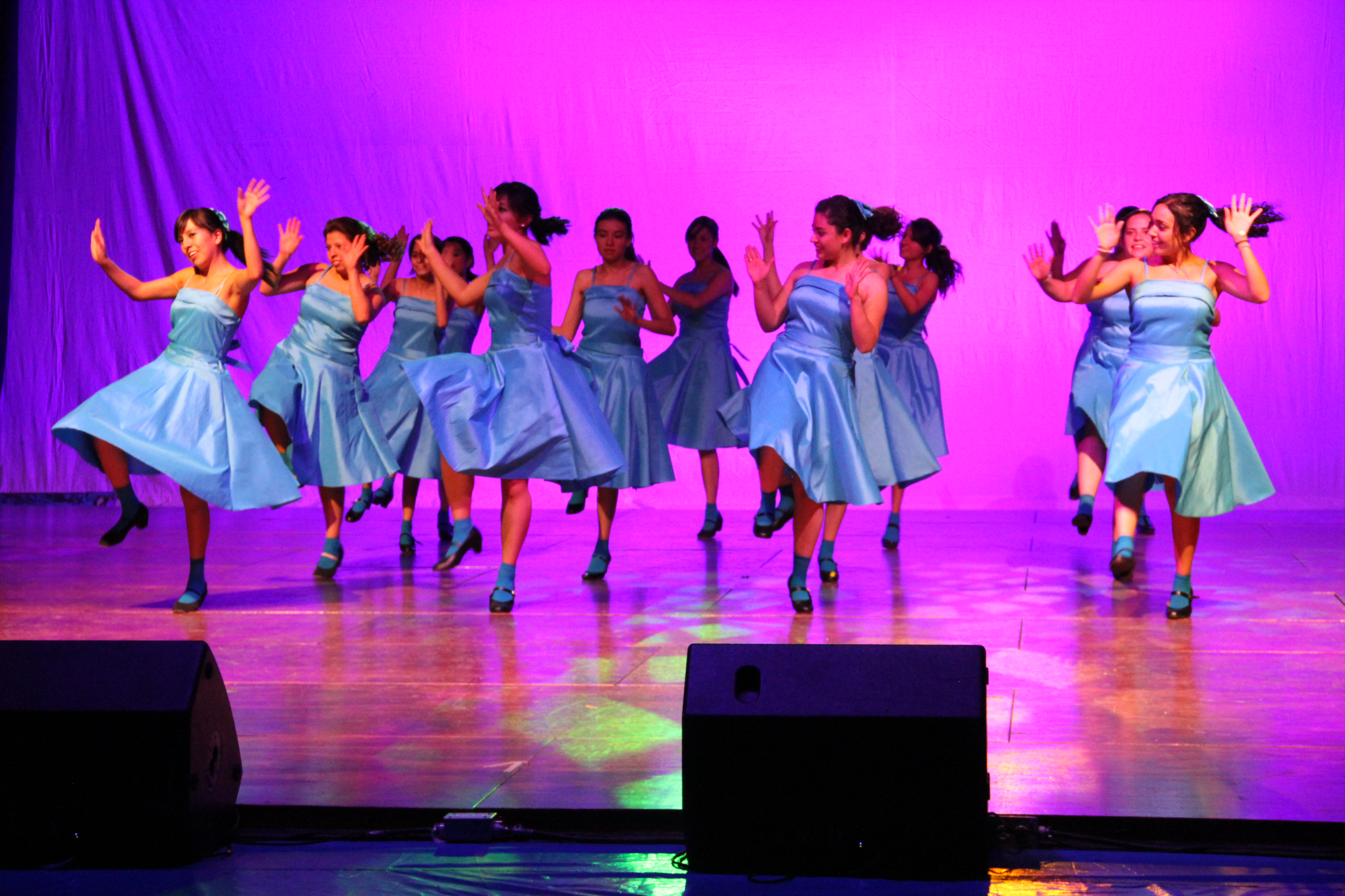 A tap dance during a Cultural Week event at the ITESM campus in Mexico City.